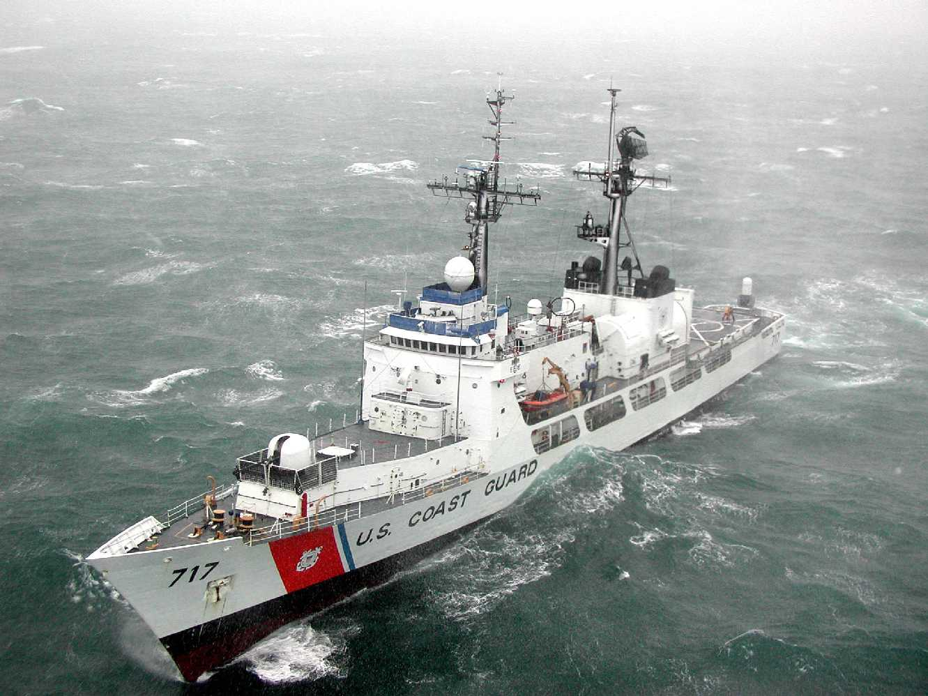 United States Coast Guard Cutter Mellon (WHEC-717) makes way through the Bering Sea while acting as search and rescue standby cutter for the Bering Sea Opilio Crab fishery.